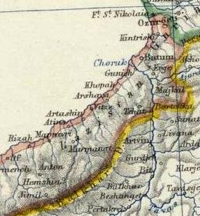 Turkey in Asia, Asia Minor, and Transcaucasia. By Keith Johnston, F.R.S.E. Engraved & printed by W. & A.K. Johnston, Edinburgh. William Blackwood & Sons, Edinburgh & London, (1861)